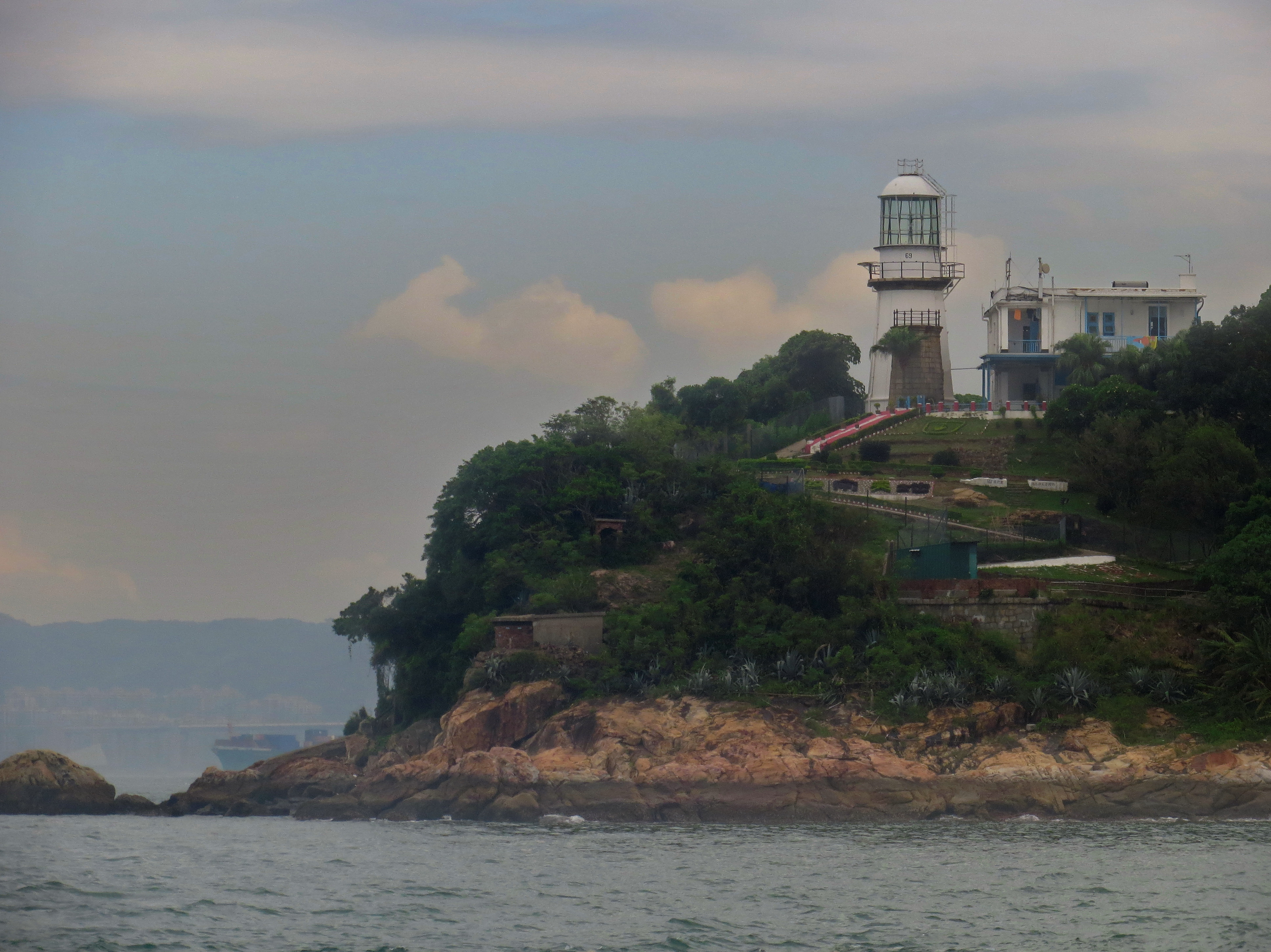 Green Island Lighthouse, Hong Kong.